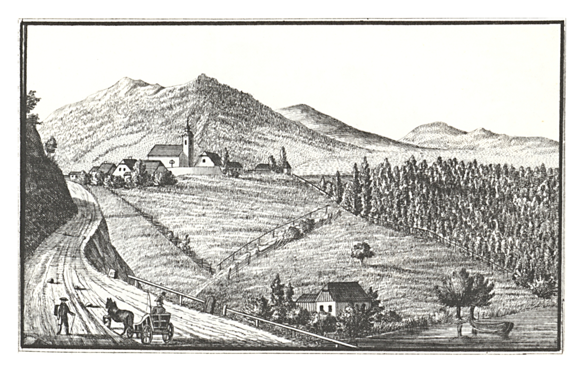 J. F. Kaiser - lithographirte Ansichten der Steyermärkischen Städte, Märkte und Schlösser Graz, 1825 Joseph Franz Kaiser (1786–1859) Alternative names J. F. KaiserDescriptionAustrian printer and editorDate of birth/death 11 March 1786 19 September 1859Location of birth/death Graz (Styria) GrazAuthority control : Q1499963 VIAF: 30629353 ISNI: 0000 0000 3083 0153 LCCN: n87141671 GND: 129880159 NLP: A24960305 WorldCat creator QS:P170,Q1499963 Scanprojekt Community Projektbudget 2012 This scan or this PDF-file was created within the GLAM-project Bookscanning, supported by Wikimedia Germany and Wikimedia Austria as a part of the community-project to capture books, documents and pictures which are not eligible to copyright or for which the copyright has expired. This document describes or depicts an object which is located in Austria today. Send requests for uncompressed scans to Hubertl. This work is in the public domain in its country of origin and other countries and areas where the copyright term is the author's life plus 100 years or less. You must also include a United States public domain tag to indicate why this work is in the public domain in the United States. This file has been identified as being free of known restrictions under copyright law, including all related and neighboring rights.